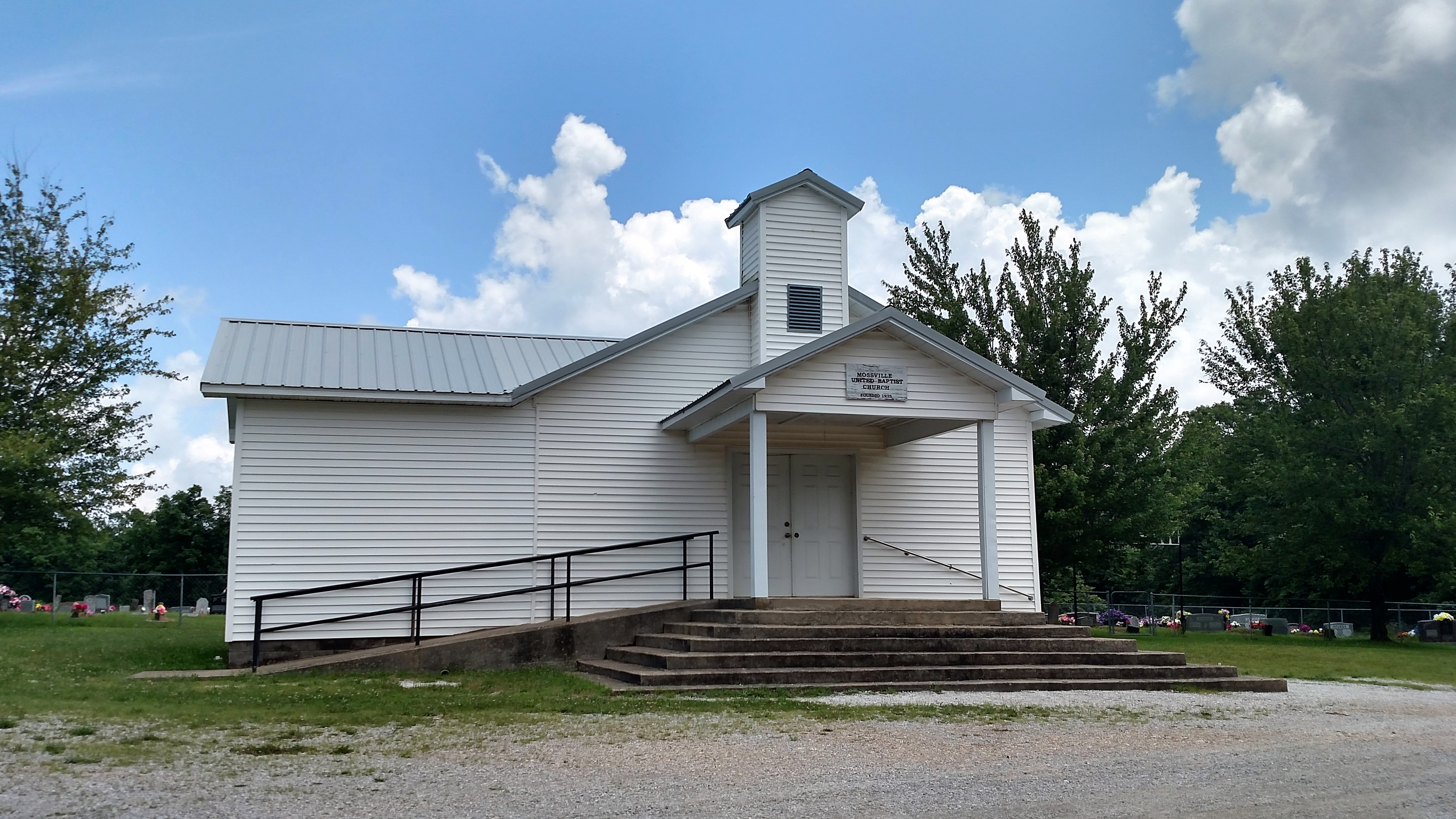 Mossville Baptist Church along Highway 21 in Newton County, Arkansas